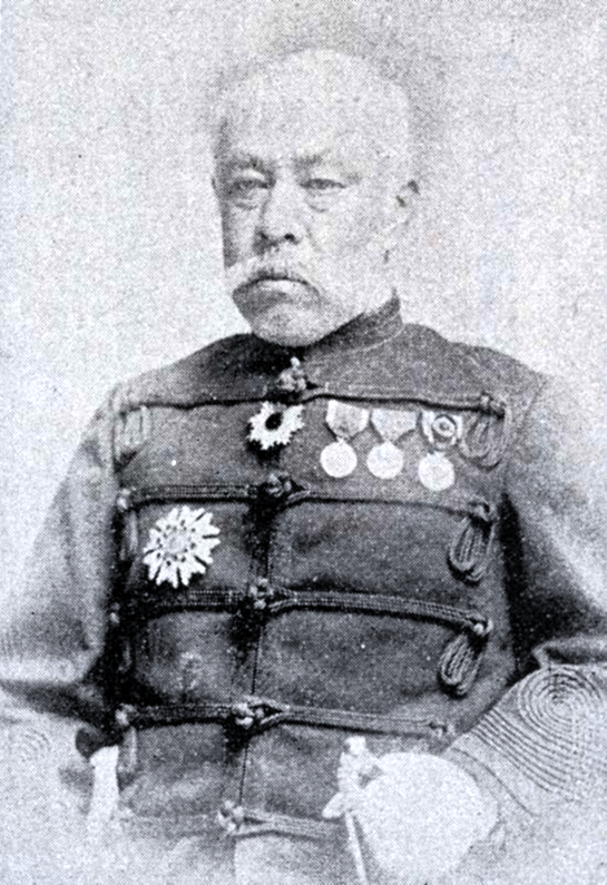 Mitsuma Masahiro